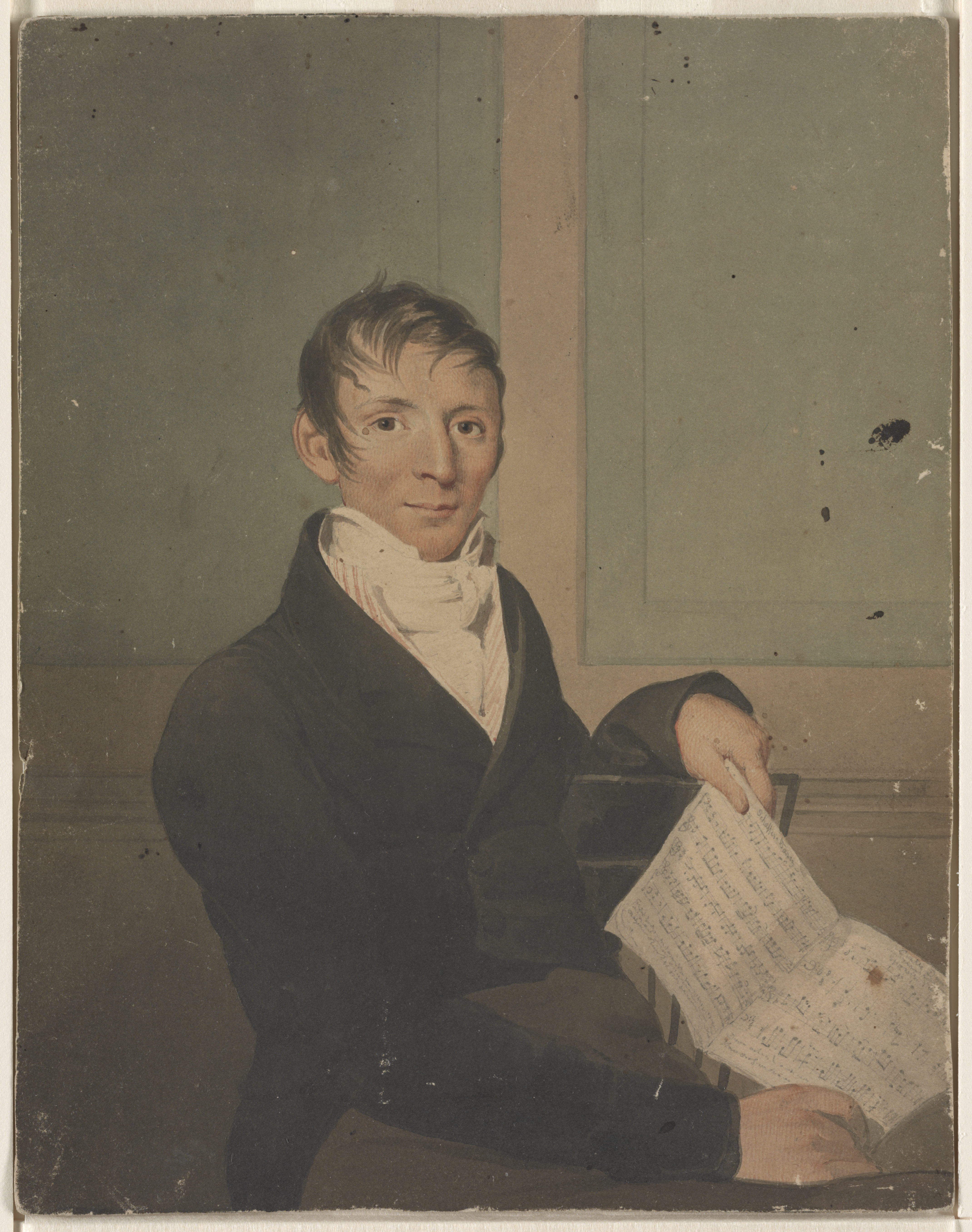 Title: [Mr. Graupner - seated and holding music] Creator(s): Smith, John Rubens, 1775-1849, artist Date Created/Published: 1809 June. Medium: 1 drawing : watercolor and graphite ; 22.2 x 17.3 cm (sheet). Summary: Drawing shows a portrait of Gottlieb Graupner, a music publisher in Boston, facing front while holding a sheet of music. Repository: Library of Congress Prints and Photographs Division Washington, D.C. 20540 USA